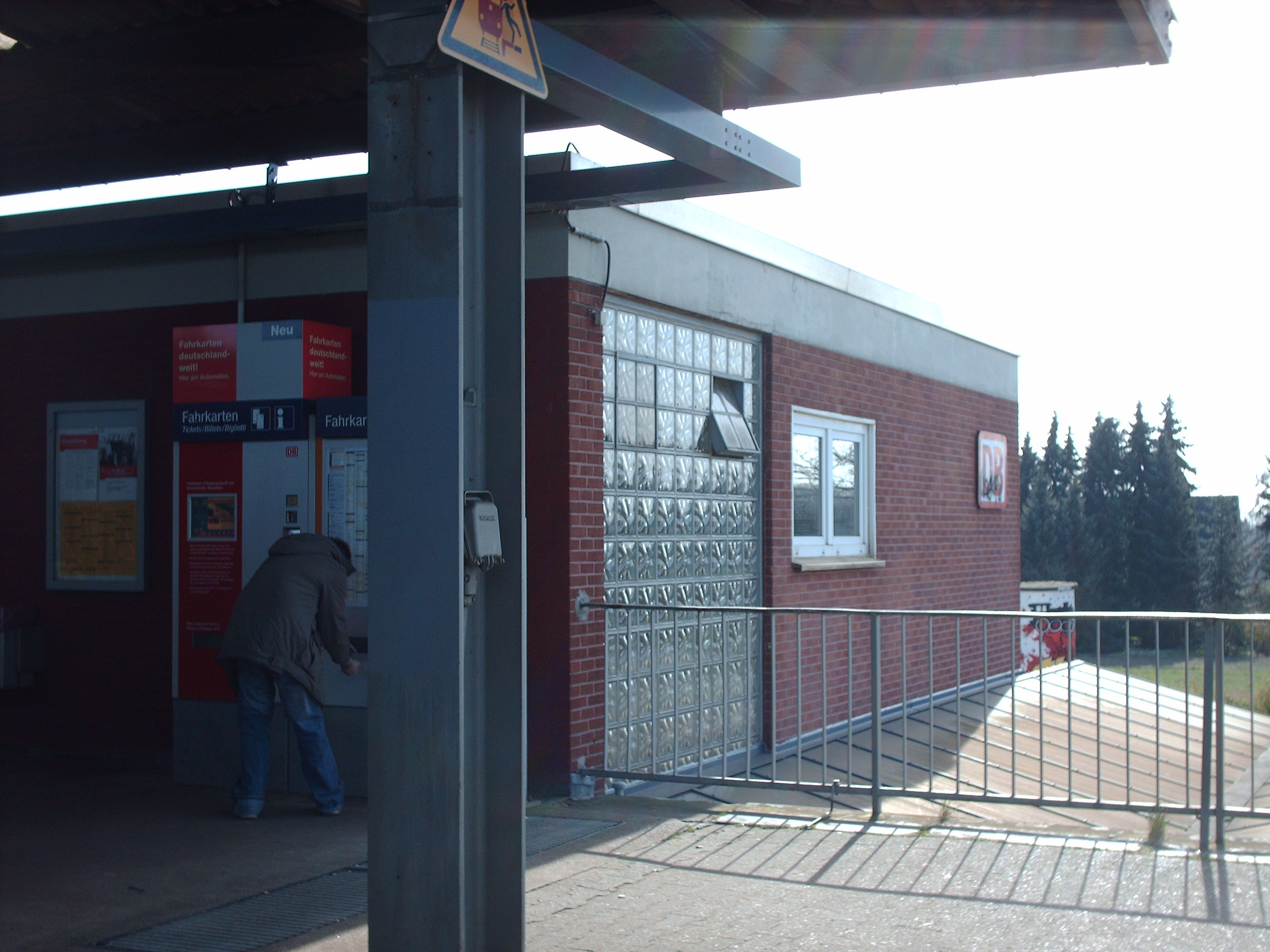 Lengerich (Westf) station, Lengerich, Germany check usage